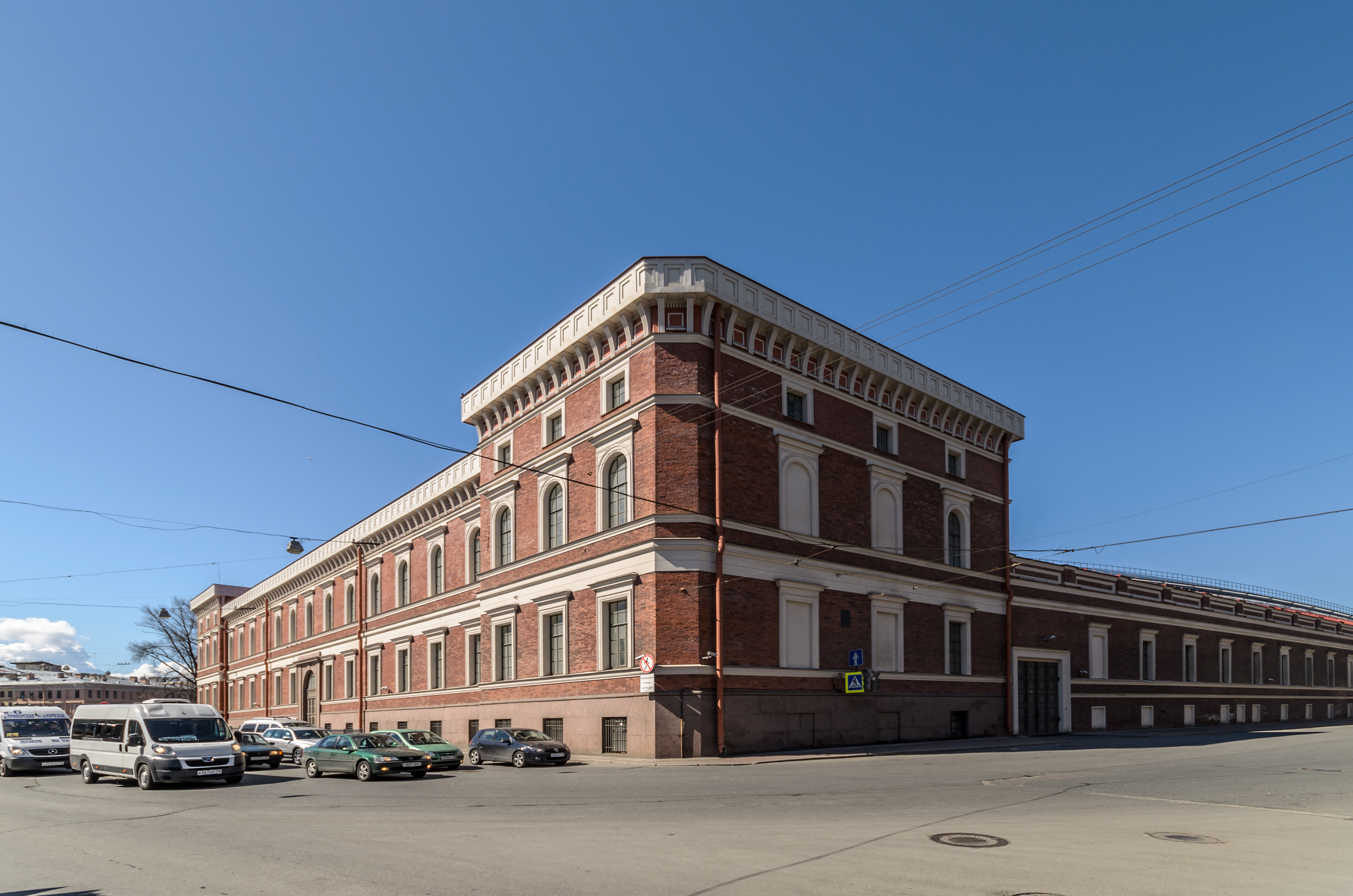 Central Naval museum in Saint Petersburg